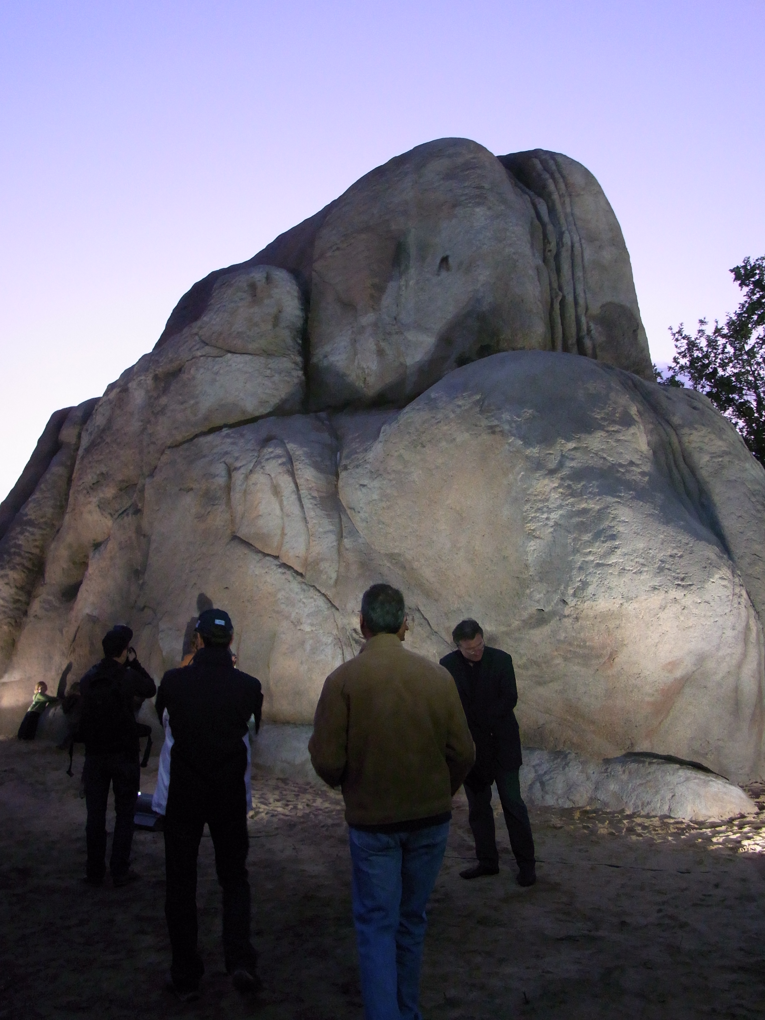 Monument for a Forgotten Future Sculpture by: Olaf Nicolai Sound Installation by: Douglas Gordon, Mogwai Opening Day